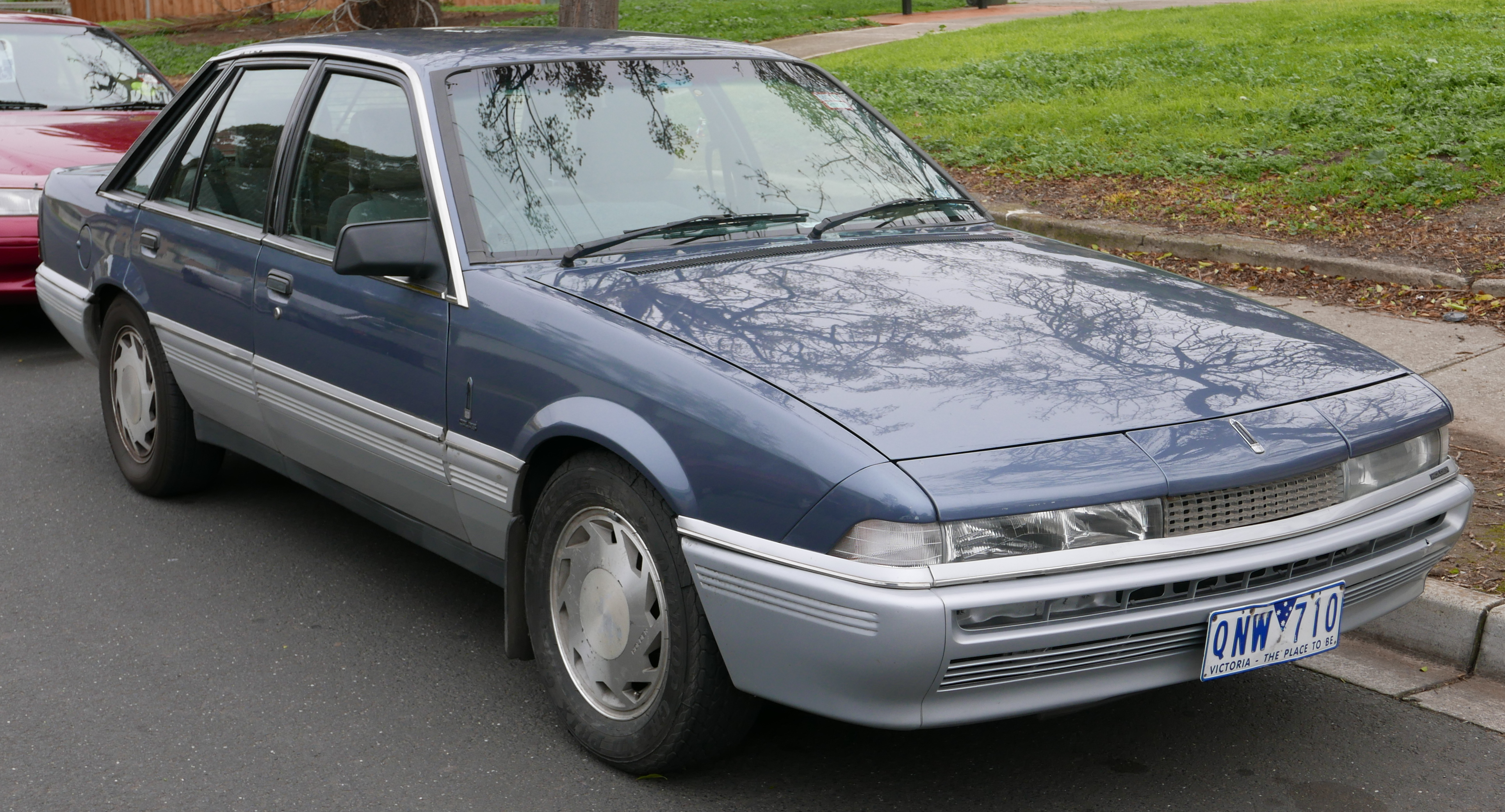 1987 Holden Calais (VL) sedan. Photographed in Thornbury, Victoria, Australia. Vehicle registration enquiry results Jurisdiction Victoria Registration QNW710 Chassis code AVL063138A Engine code 127325A6 Compliance date 1987-12 Year of manufacture 1988 (not a typo)